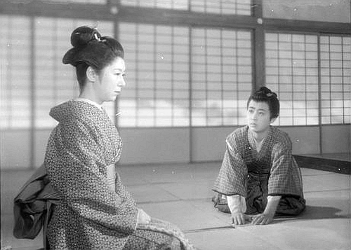 Kinuyo Tanaka and Masahiko Tsugawa in Shishi no za (獅子の座) directed by Daisuke Itō - 1953